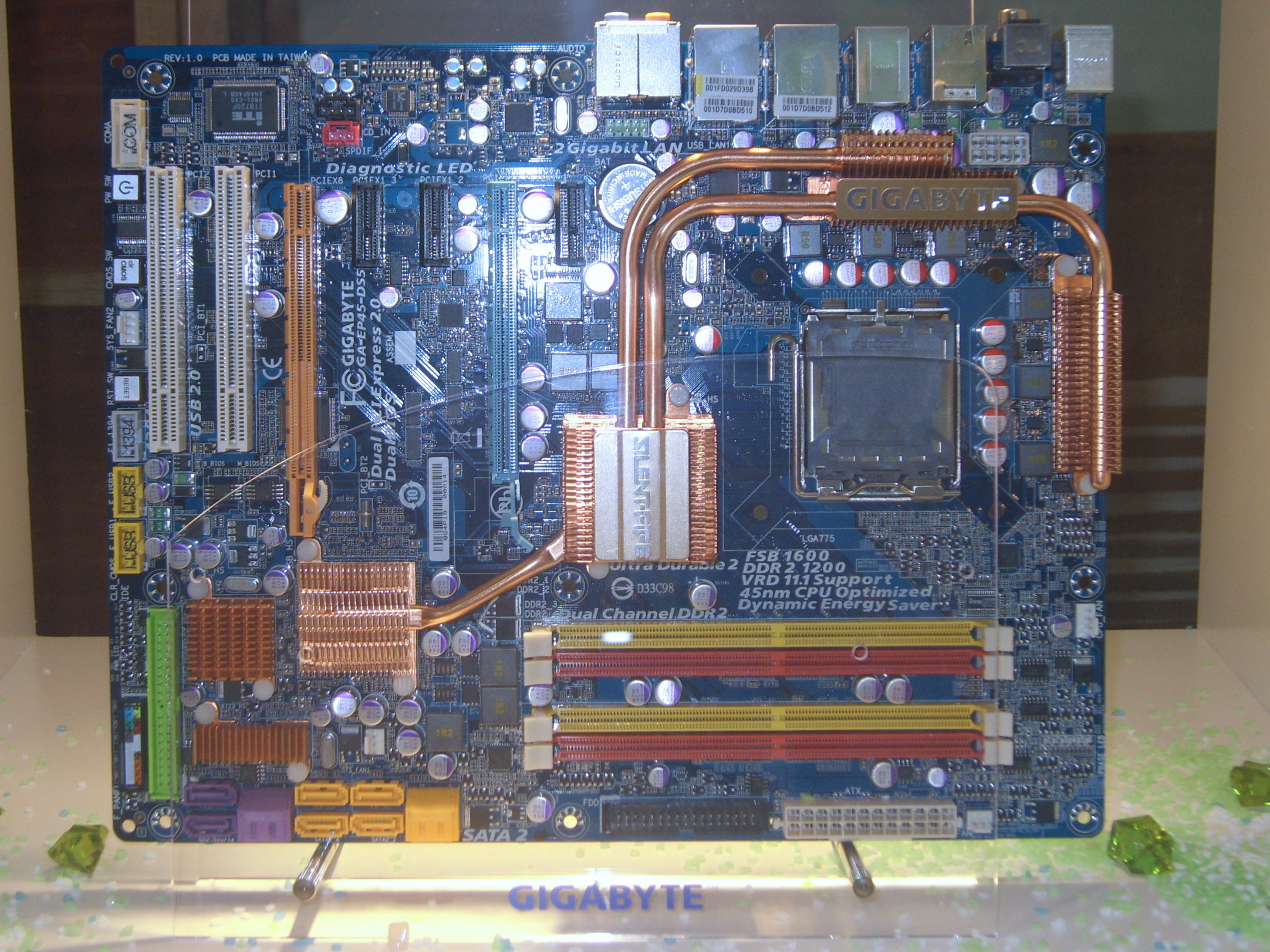 2008 Computex Best Choice: Gigabyte GA-EP45-DS5 Motherboard.